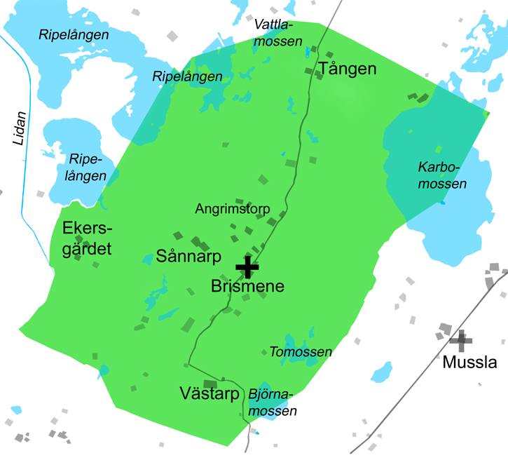 Map over Brismene parish in Frökind hundred, Falköping municipality, Västergötland, Sweden. Scale 1:40,000. The area of Brismene parish is marked green. Bogs are blueish. Brismene church is marked with a black cross. Mussla church-ruin is marked with a grey cross. Roads, villages, and farms are grey.